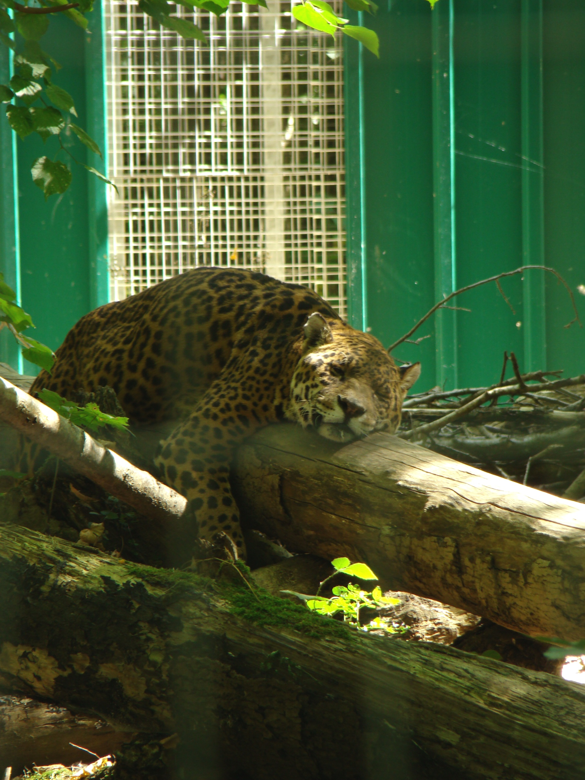 Jaguar, Parc des félins.